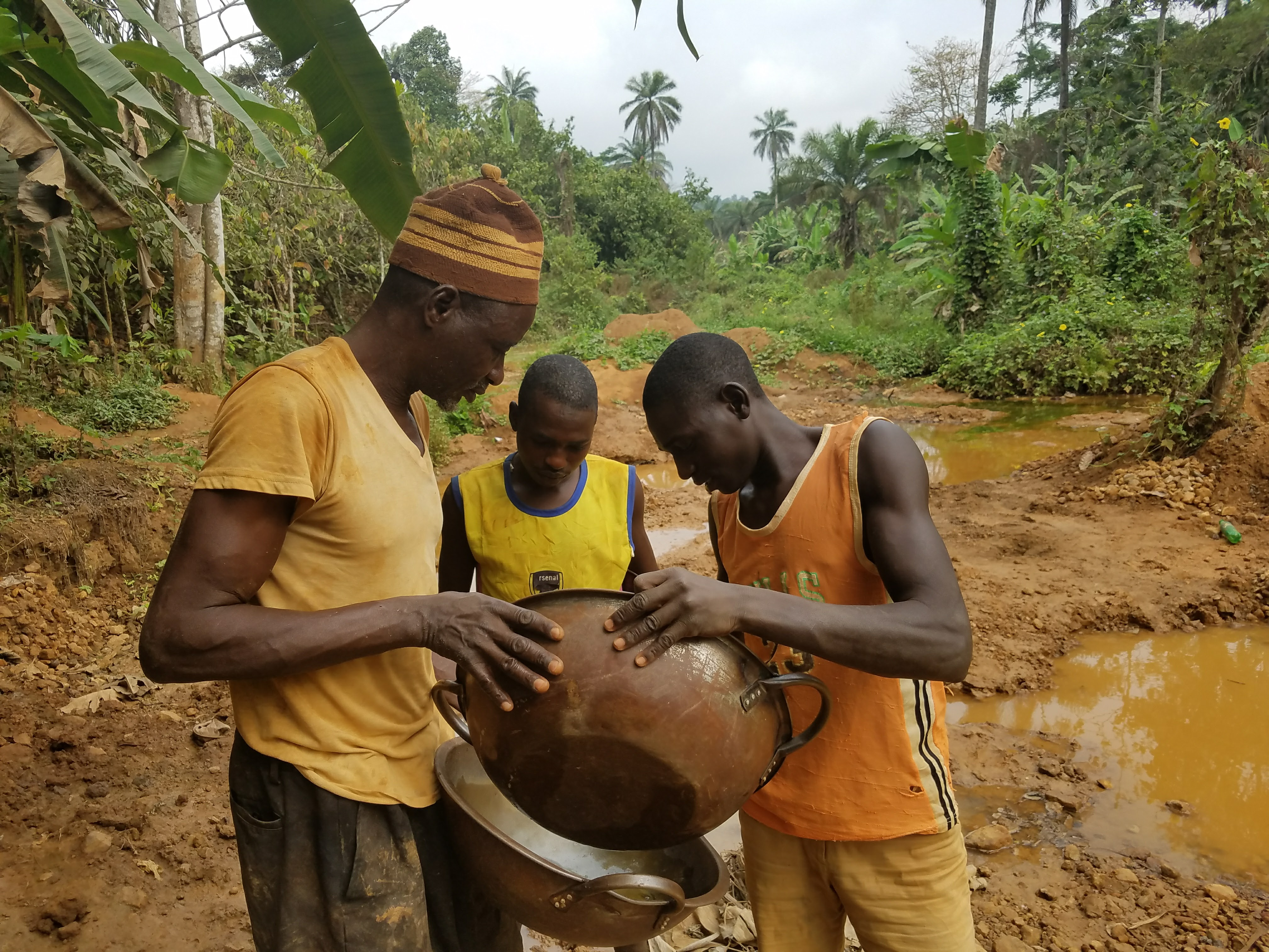 Illegal miners in Itagun, Nigeria gathering their gold finds in one pan. This is an image of "African people at work" from Nigeria